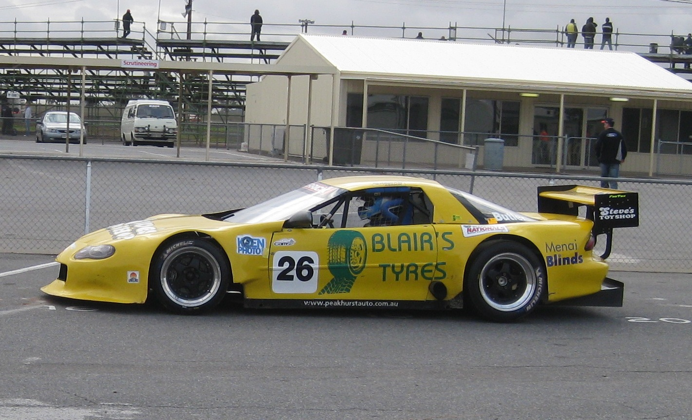 The Chevrolet Camaro of Scott Butler at Mallala Motor Sport Park in South Australia for Round 2 of the 2010 Kerrick Sports Sedan Series.